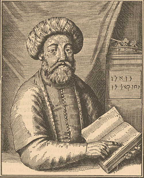 Illustration from Brockhaus and Efron Jewish Encyclopedia (1906—1913)